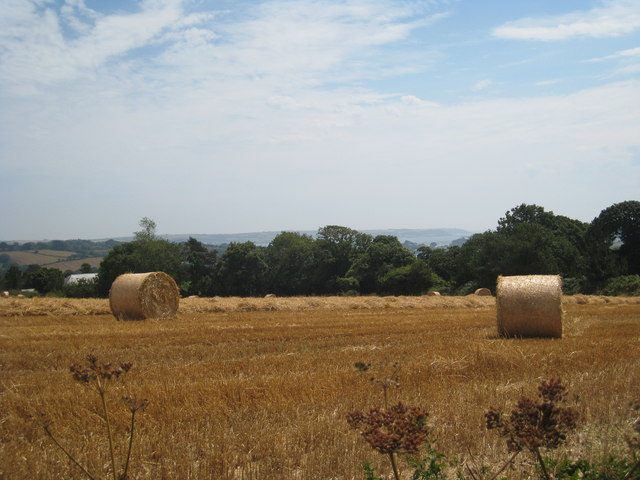 Harvesting at Tregoose. The Roseland peninsula and St Anthony Head can be seen in the far distance, on the opposite side of Carrick Roads.